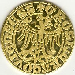 The Grossus cracoviensis, a silver groschen coin similar to the Prague groschen, was introduced in Cracow by Casimir III of Poland in 1367. It is marked GROS(S)I CRACOVIENSES(S) and KAZIMIRVS PRIMUS DEI GRATIA REX POLONIE.